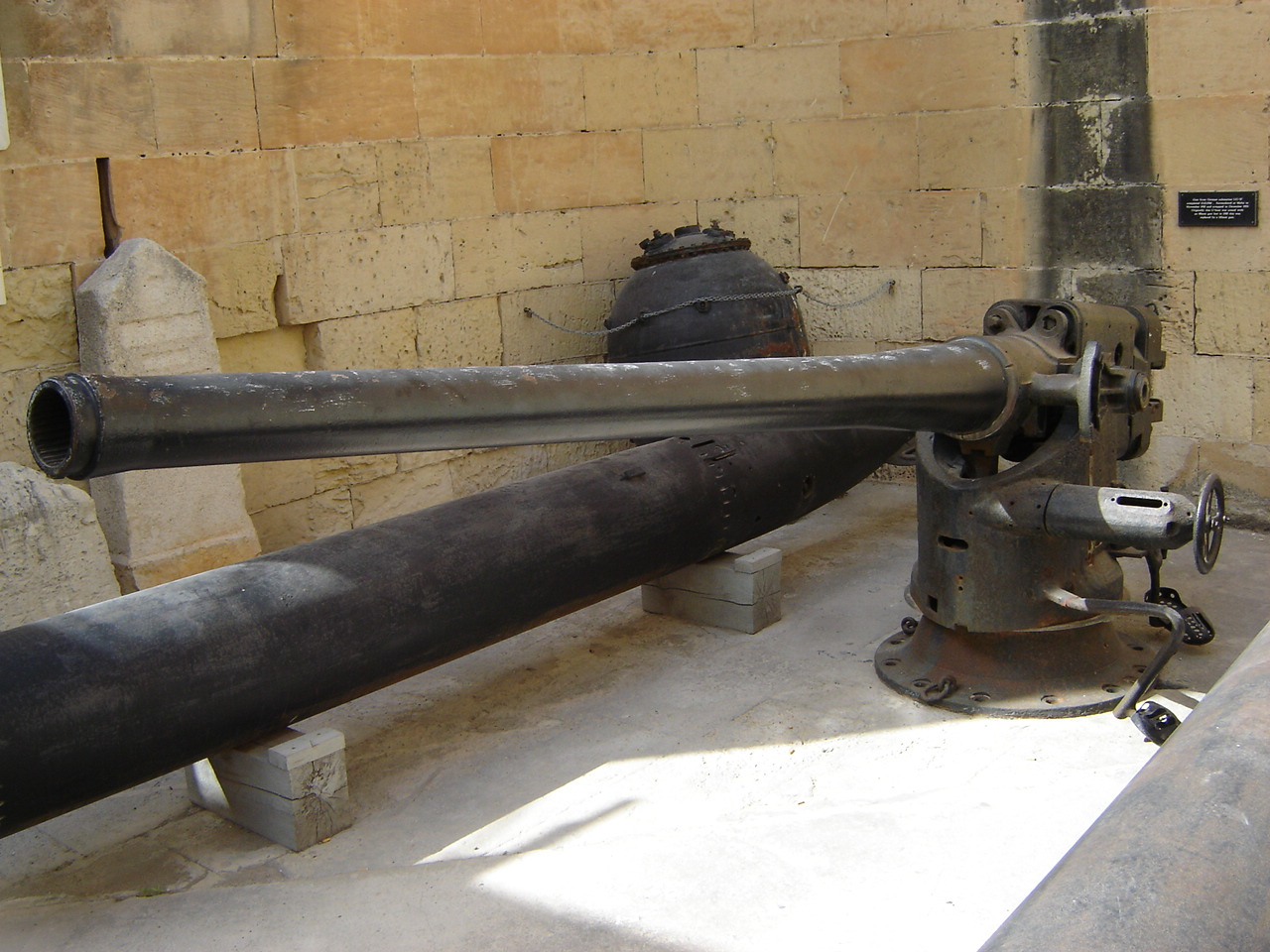 10,5 cm deck gun of german submarine UC 37 (commisioned 1916, based in Konstantinopel). Today the gun is exhibitioned in Malta.